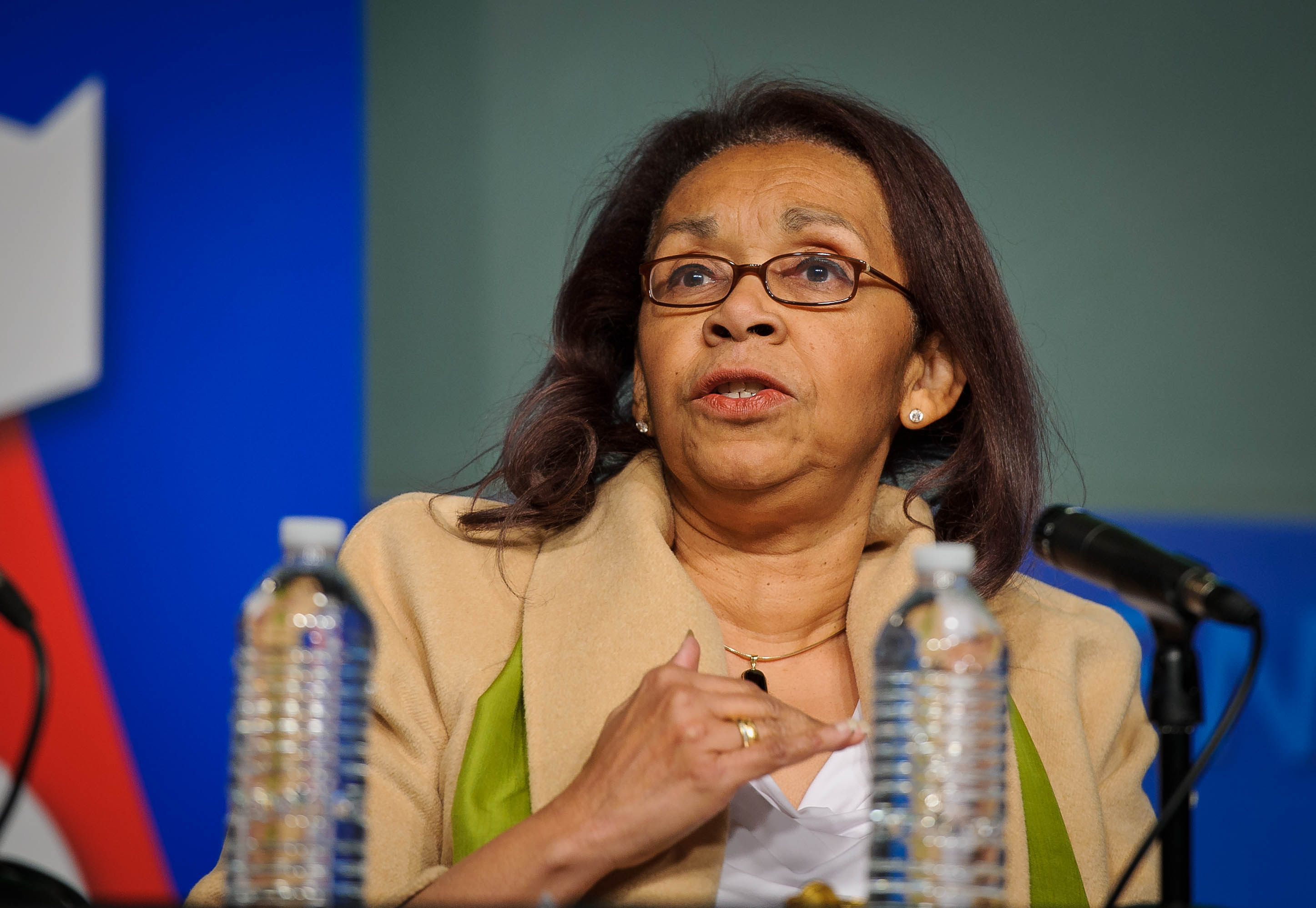 Shirley Malcom, head of Education and Human Resources at AAAS, talks during a discussion on the implications from the Minority Male STEM Initiative at the Symposium on Supporting Underrepresented Minority Males in Science, Technology, Engineering and Mathematics (STEM), Tuesday, Feb. 28, 2012 at NASA Headquarters in Washington.